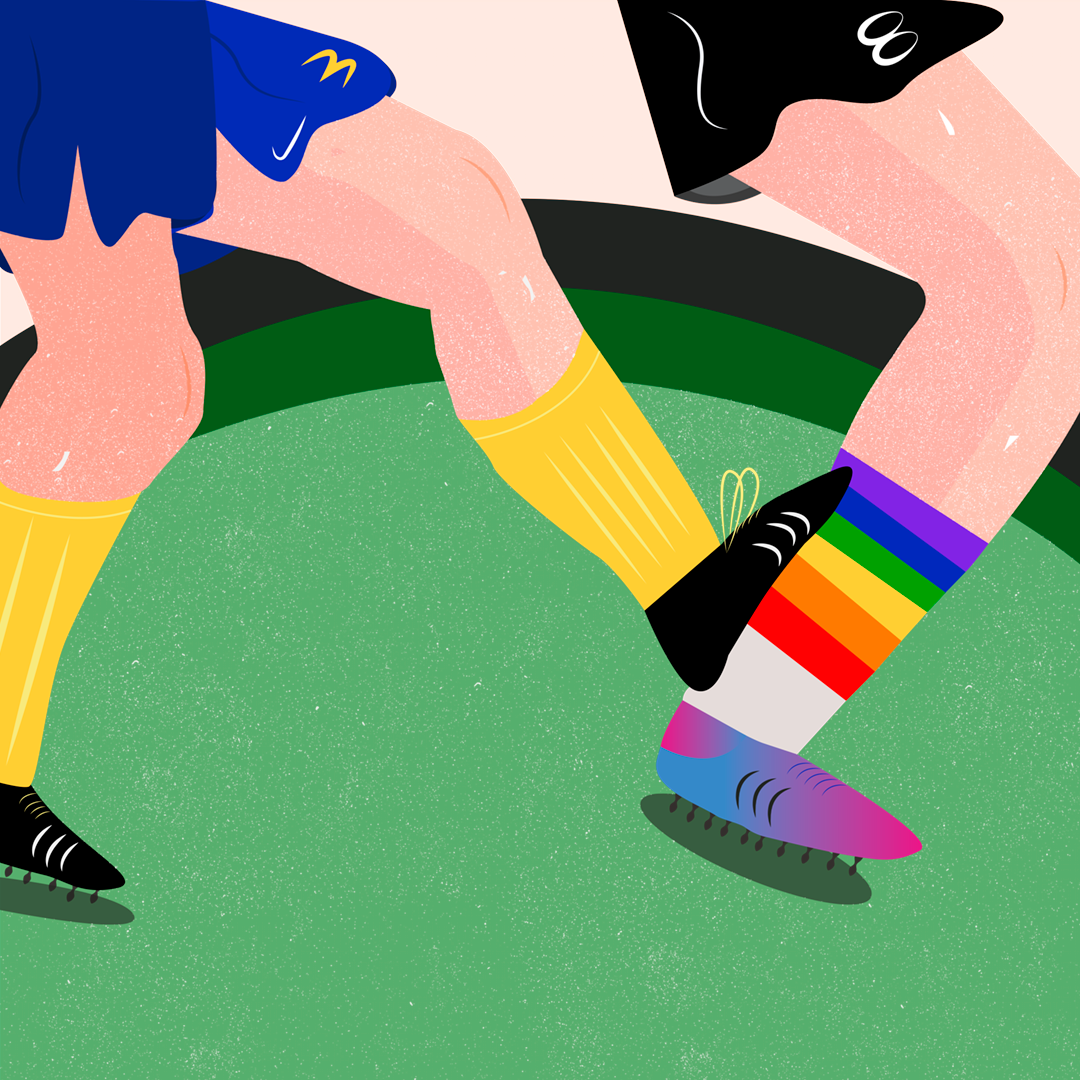 Attack of the LGBT community in the framework of Argentinian soccer.